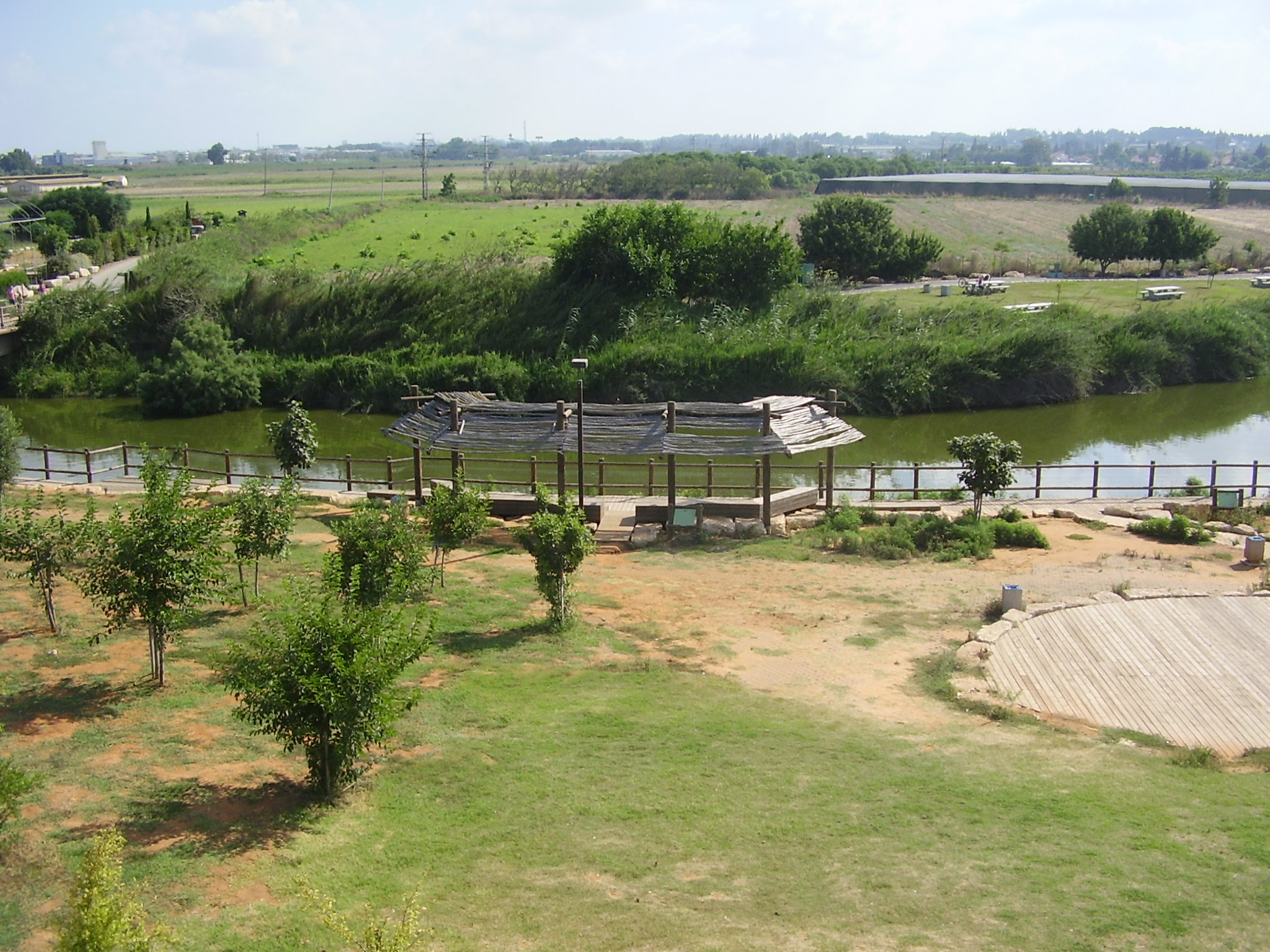 Alexander Creek